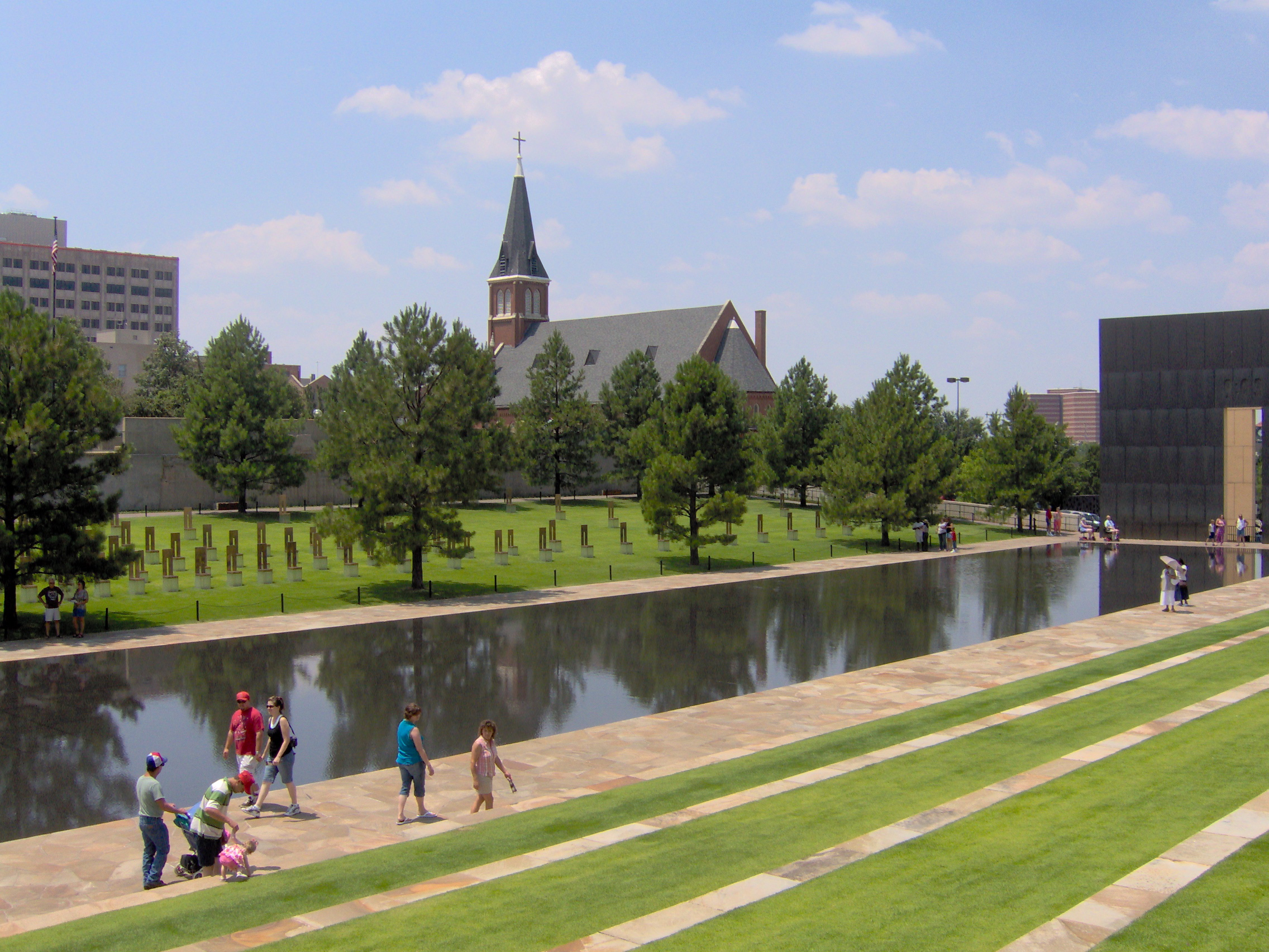 Eastern side and rear of St. Joseph's Cathedral, located at 225 Fourth Street, NW. in downtown Oklahoma City, Oklahoma, United States. Built in 1901, it is listed on the National Register of Historic Places. Picture is taken from the Oklahoma City National Memorial.